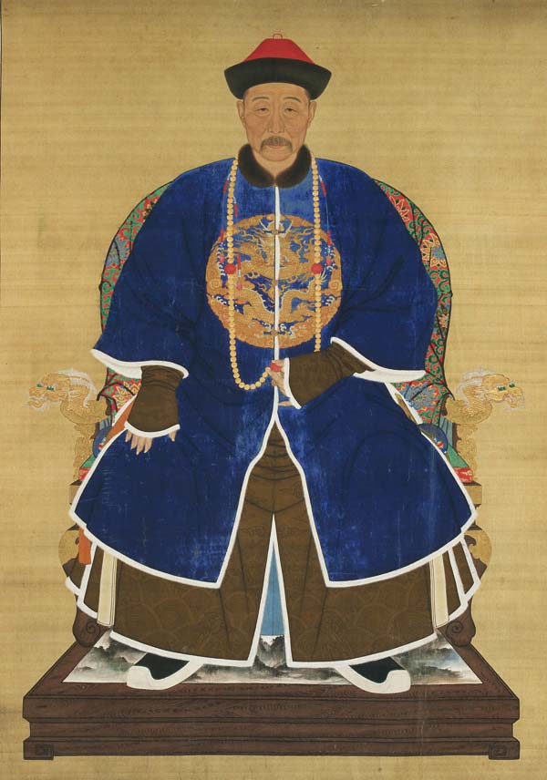 Qing Crown Prince Yinreng, son of the Kangxi-Emperor